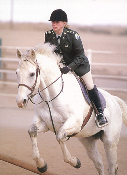 Anita Allen, West Point graduate and competitor in the modern pentathalon